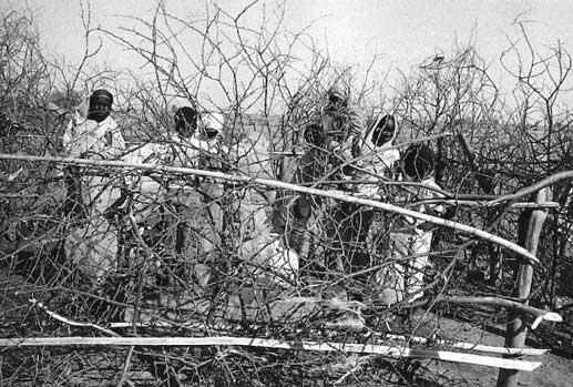 Jules Allen Photograph: Sudan 2007